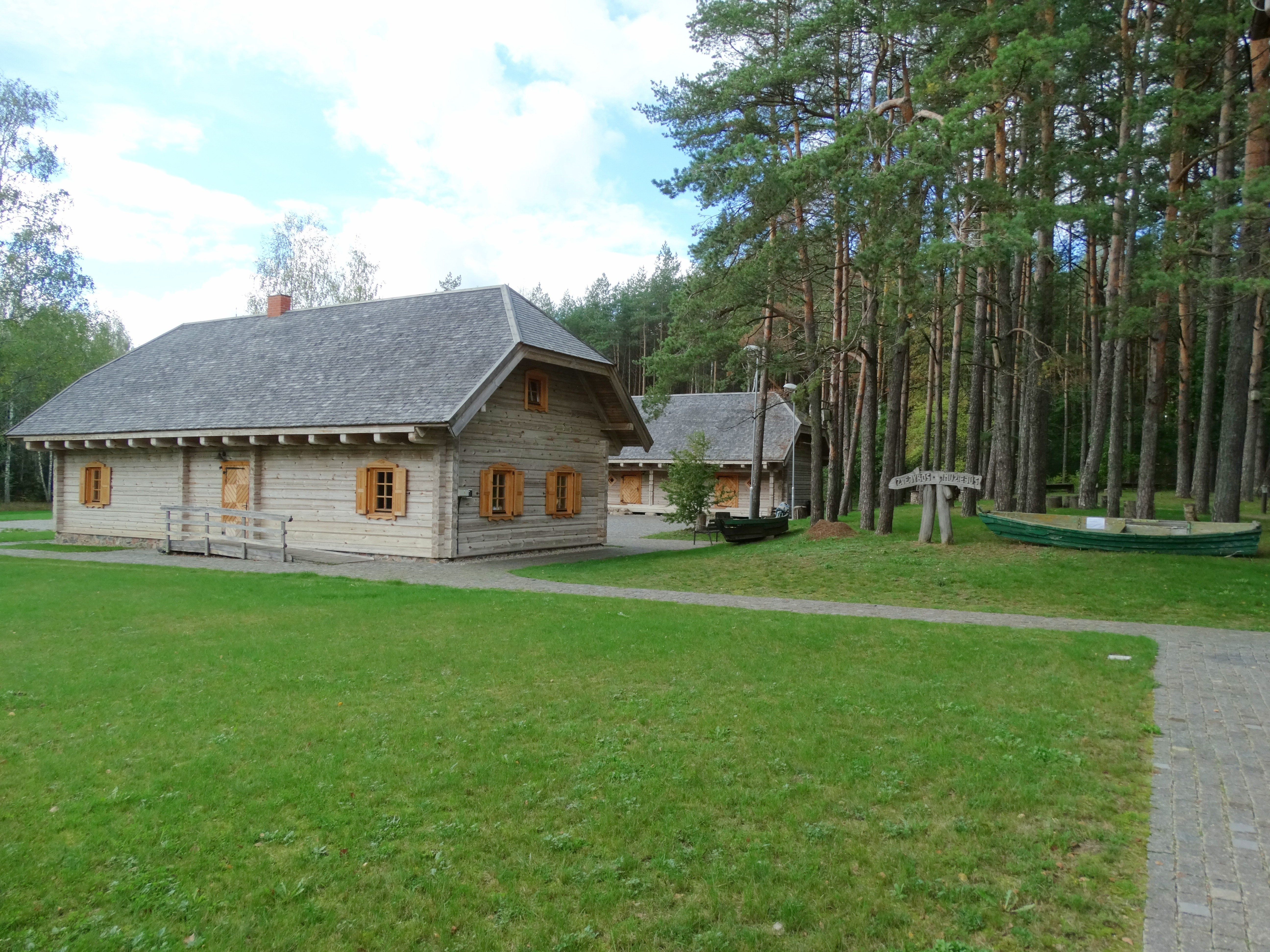 Fishing museum, Mindūnai, Molėtai district, Lithuania